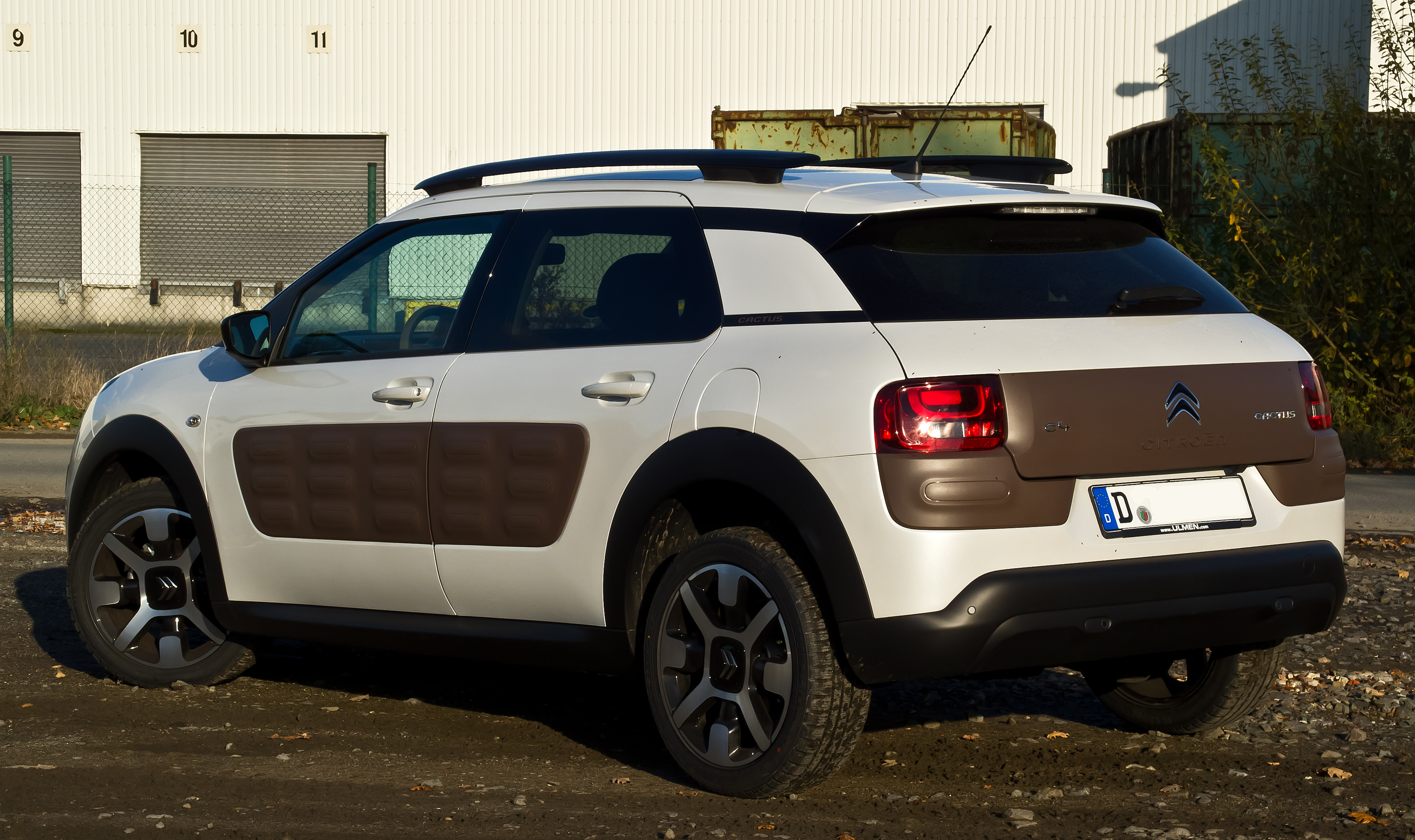 Citroën C4 Cactus BlueHDi 100 Shine Edition